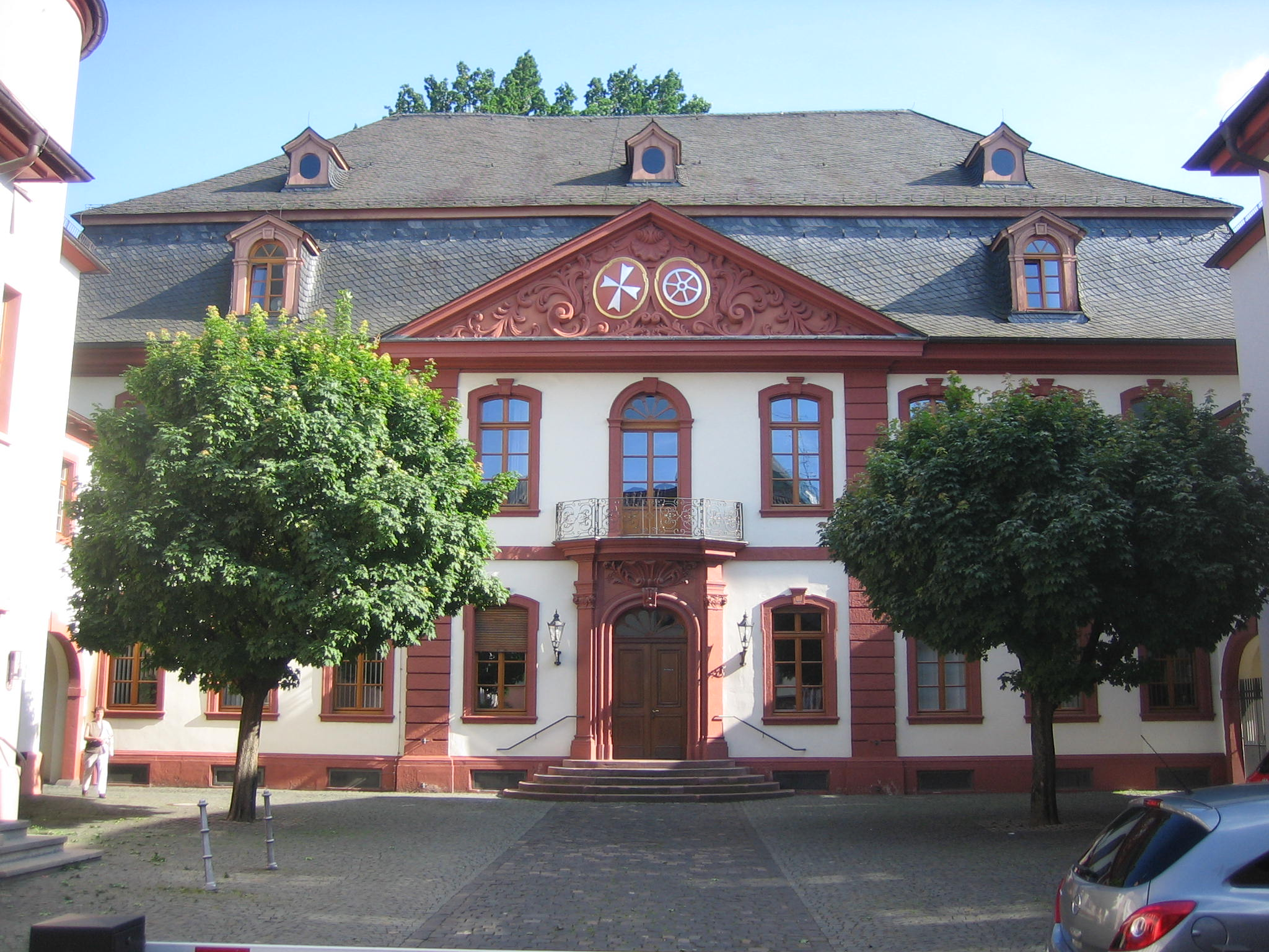 Commandry of the Sovereign Military Hospitaller Order of Saint John of Jerusalem of Rhodes and of Malta in Mainz, , Corps de Logis.